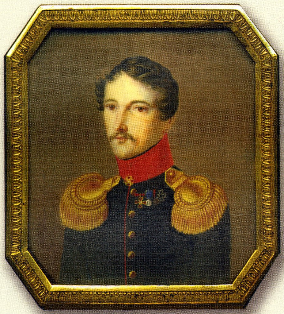 Khvostov Nikolay Vasilievich